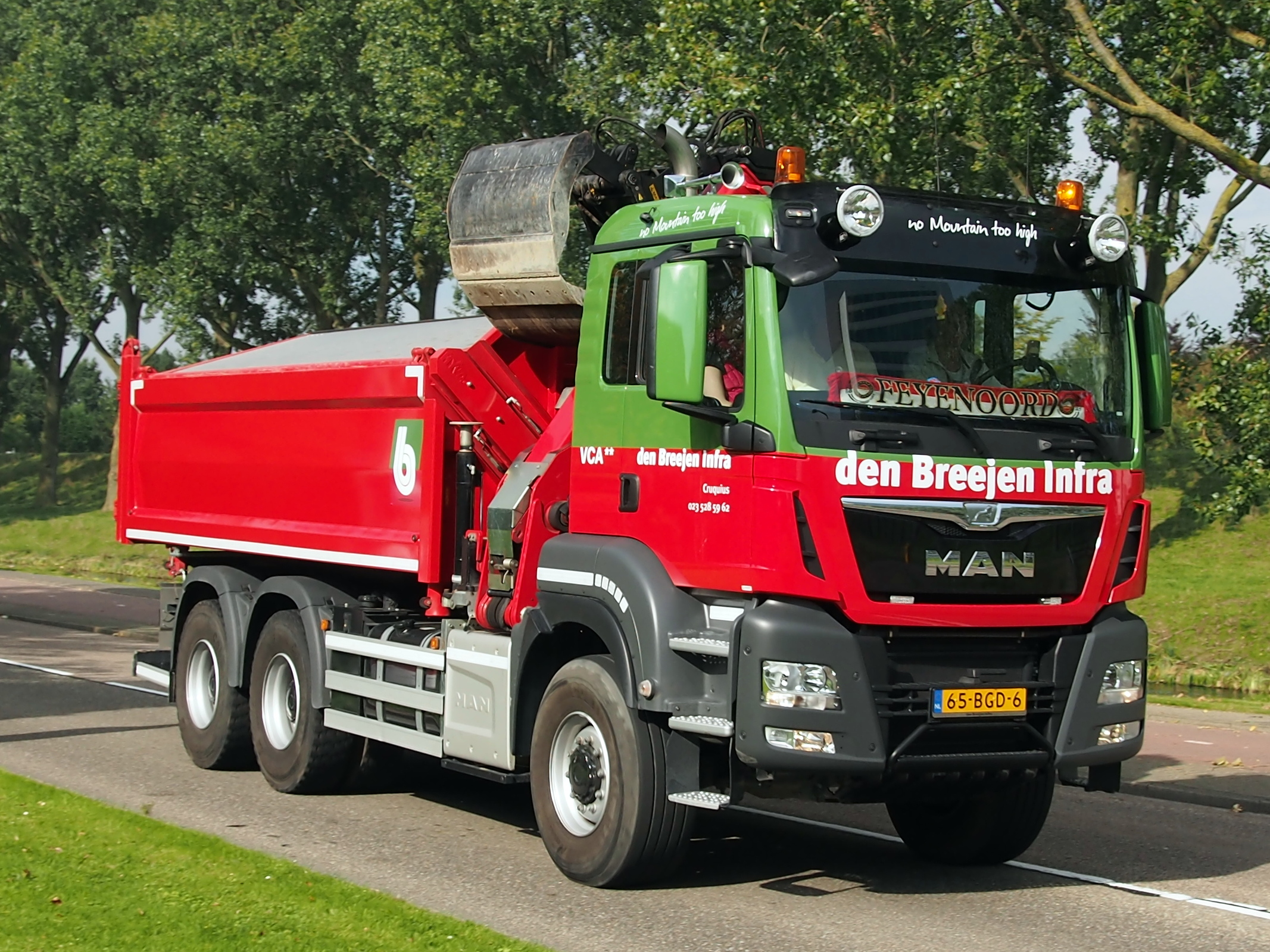 Photographed at Hoofddorp, The Netherlands.